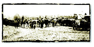 Mormon pioneers en route to Salt Lake City, 1847